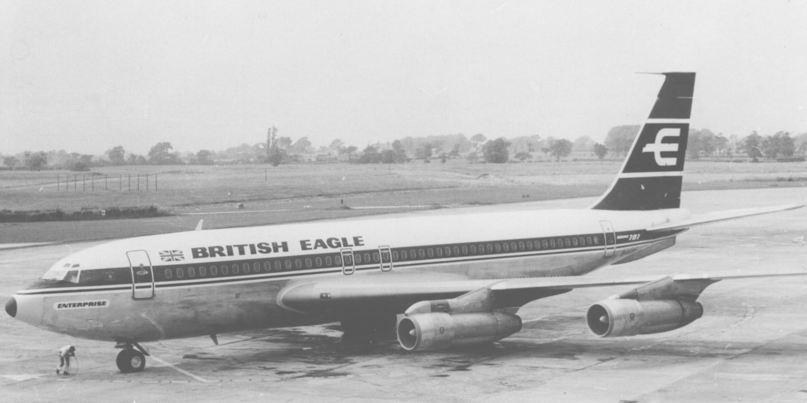 Boeing 707-138B G-AVZZ "Endeavour" of British Eagle